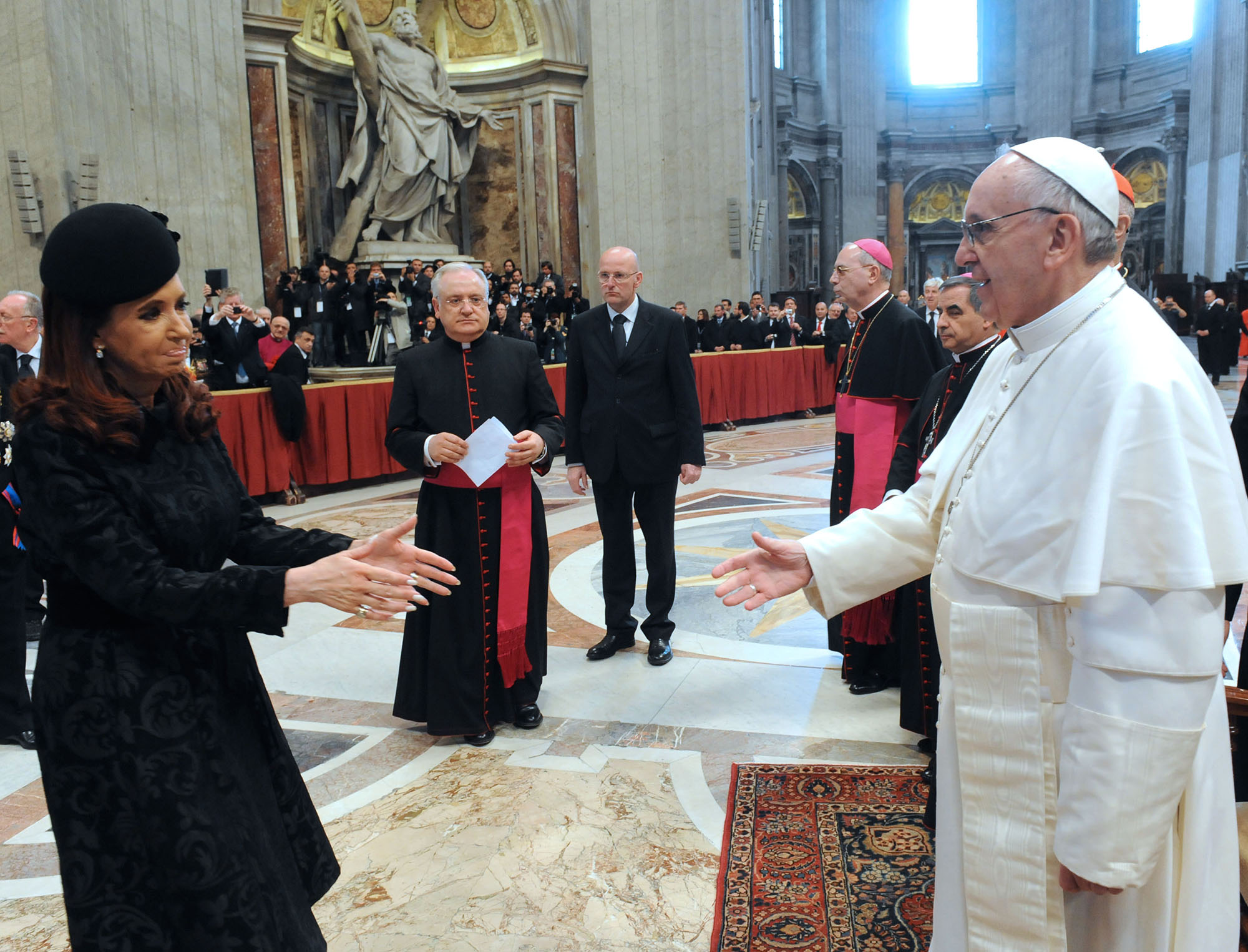 Cristina Fernández de Kirchner with Pope Francis after the installation mass